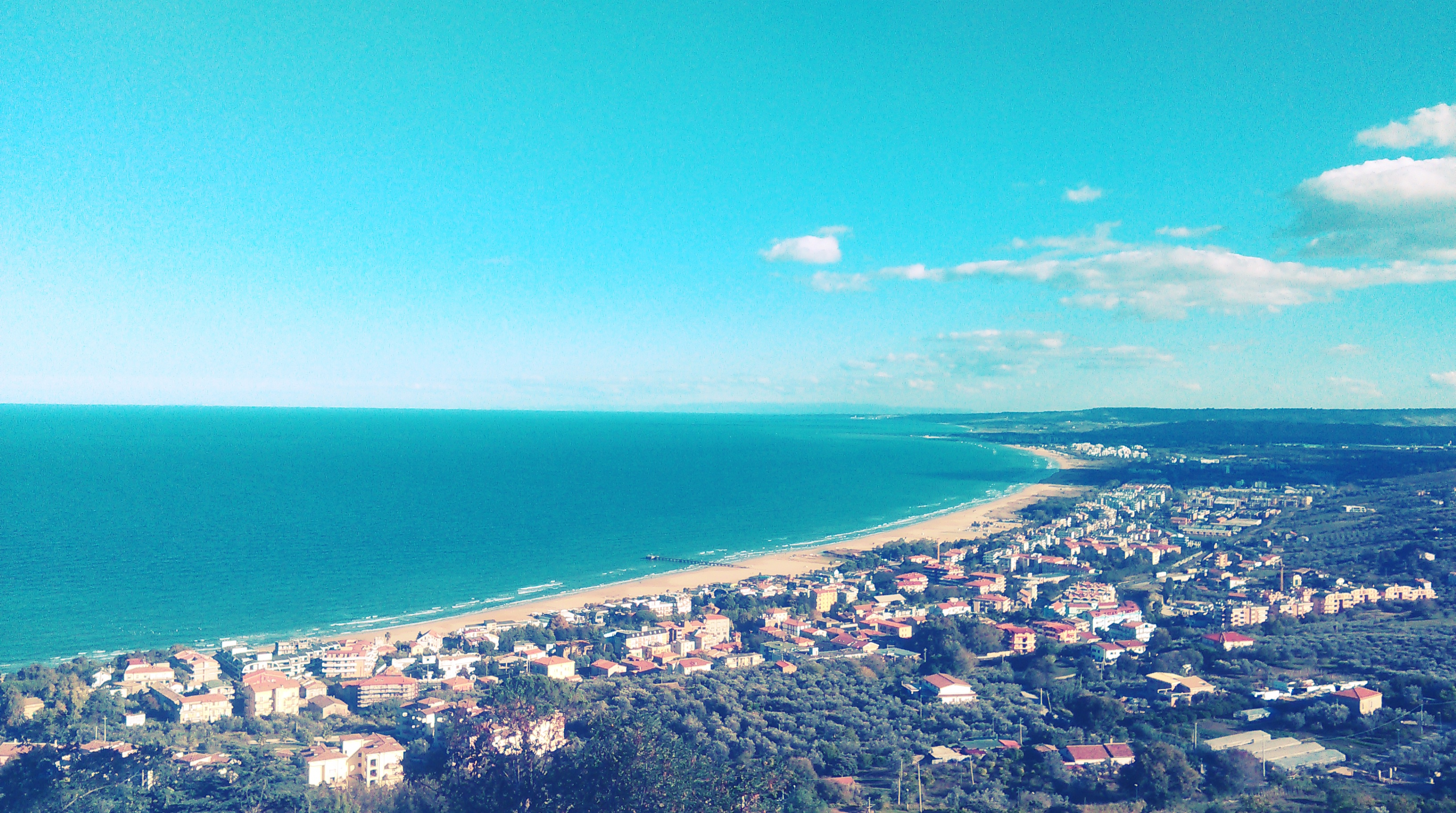 Vasto Marina, Vasto view